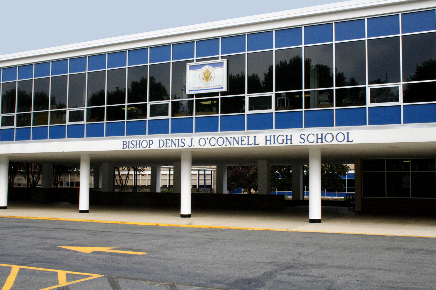 View of the "bus port" of Bishop O'Connell High School in Arlington, Virginia. Taken by johnkellystyle on August 19, 2006.